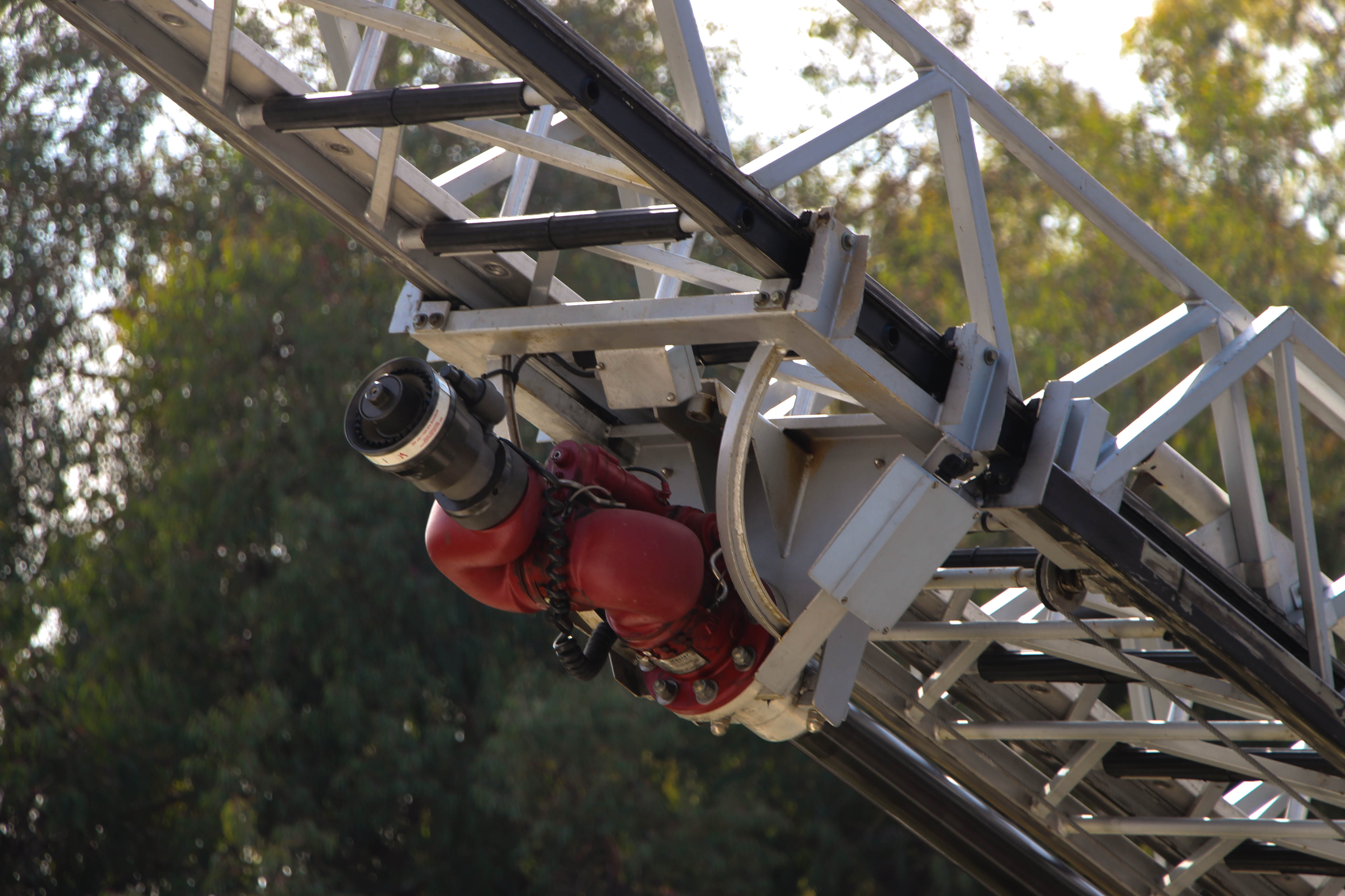 Truck 11 for the Santa Barbara County Fire Department